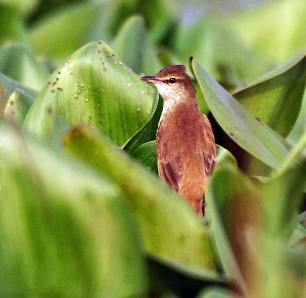 Oriental Reed Warbler (Acrocephalus orientalis) in Kolkata, West Bengal, India.